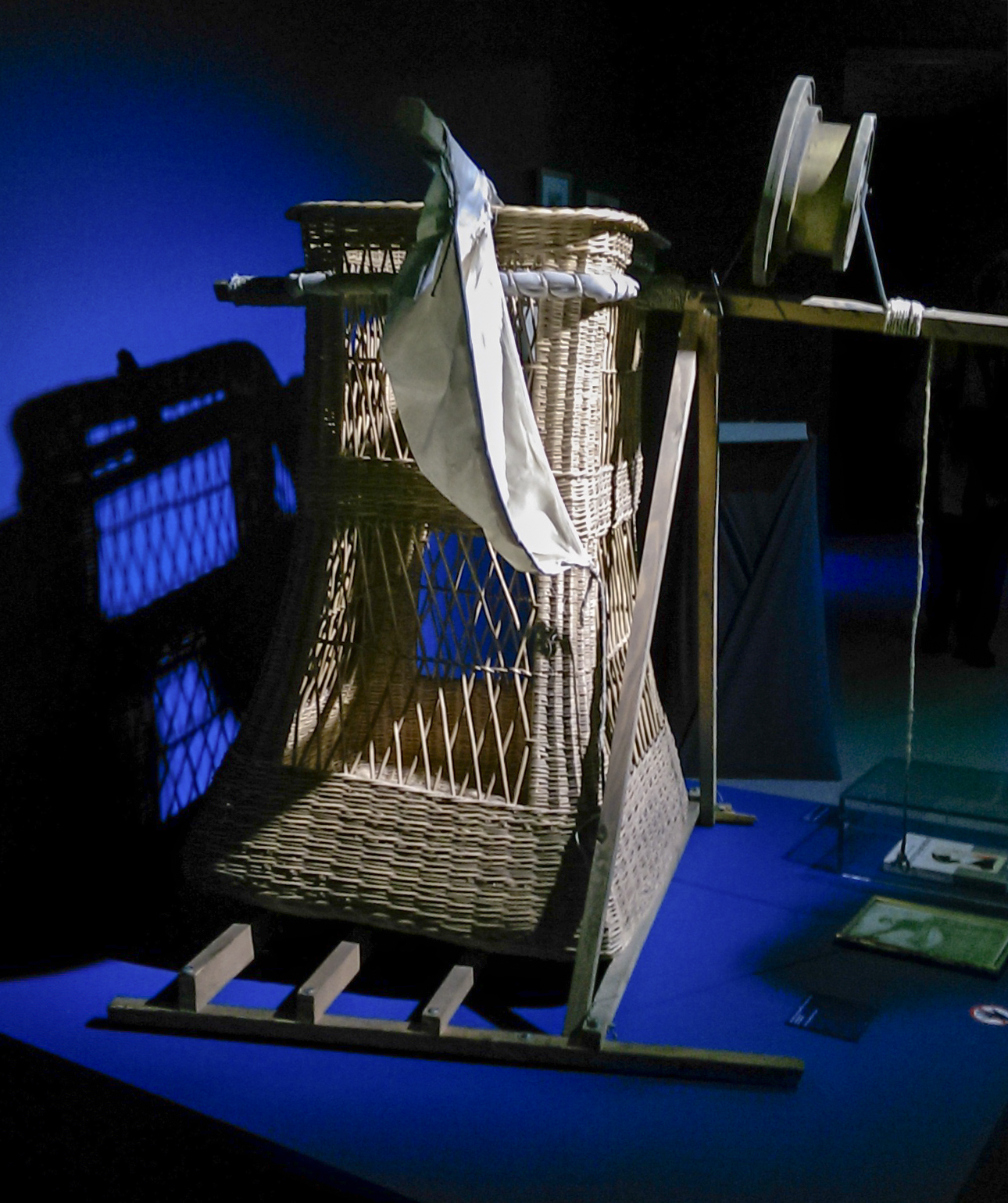 Basket that belonged to Alberto Santos-Dumont, Aéroclub de France. Here on display during an exhibition at the Musée des Années 30 (Museum of the 1930s) in Boulogne-Billancourt, France.